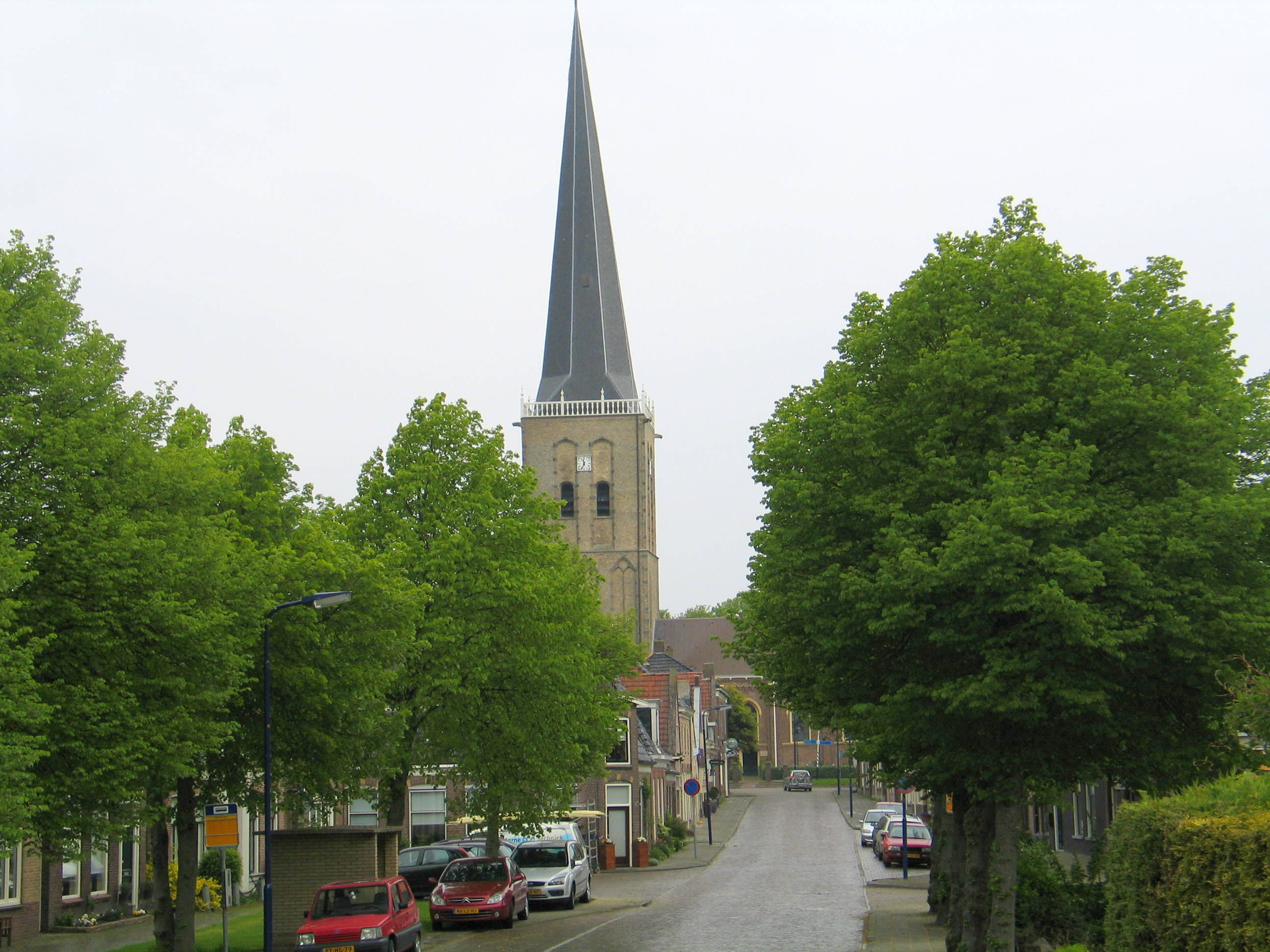 The village Tzum in Friesland